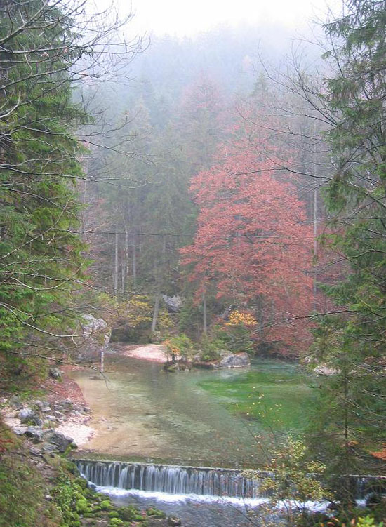 karst spring of river Kamniška Bistrica, Kamnik Alps / Southern Limestone Alps, northern Slovenia.